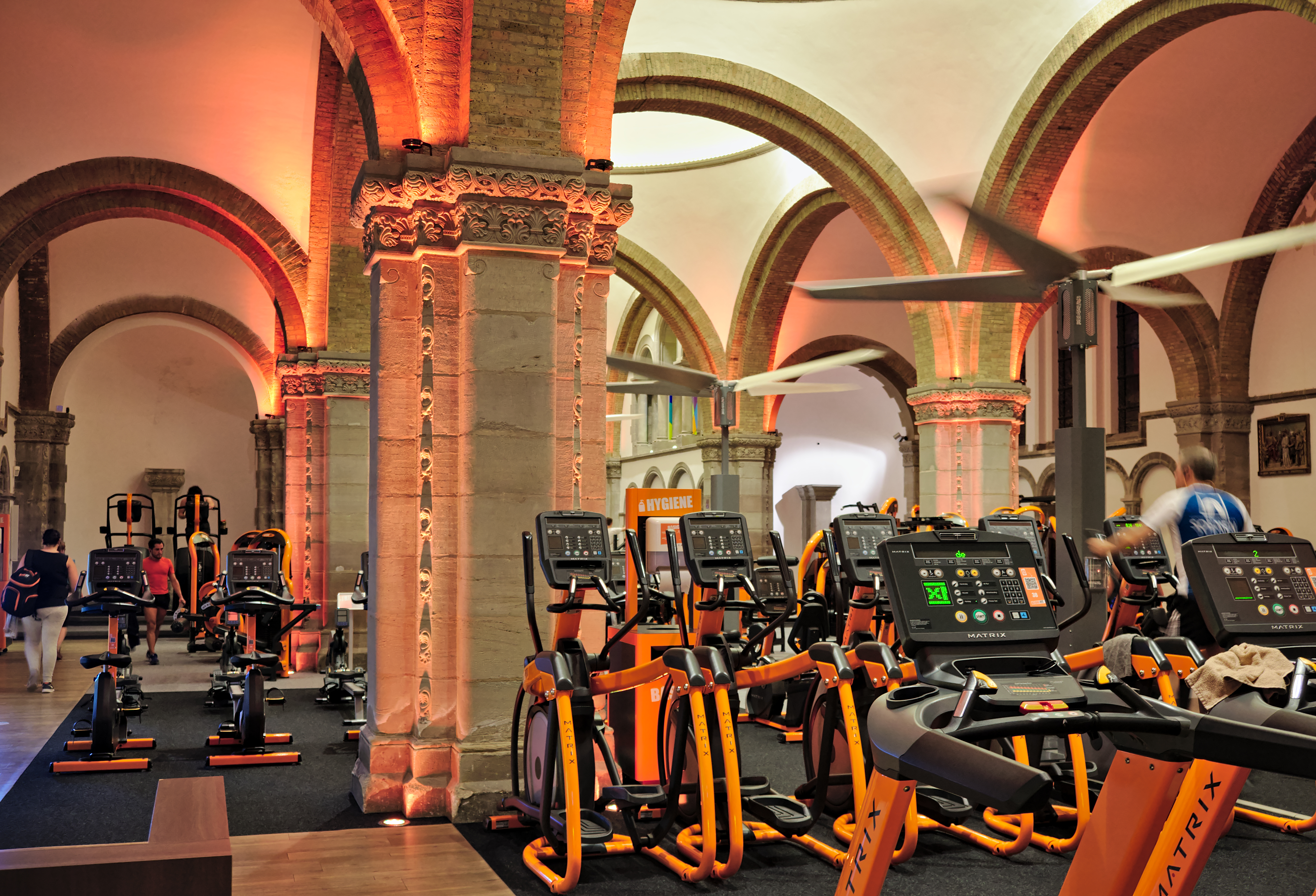 Interior of Karmelietenklooster, a former monastery church in Ypres that is currently used as a Basic-Fit gym This photo of immovable heritage has been taken in the Flemish Region